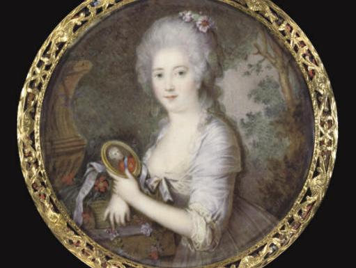 Portrait of Marie Sophie of Hesse-Kassel (1767-1852), Queen consort of Denmark